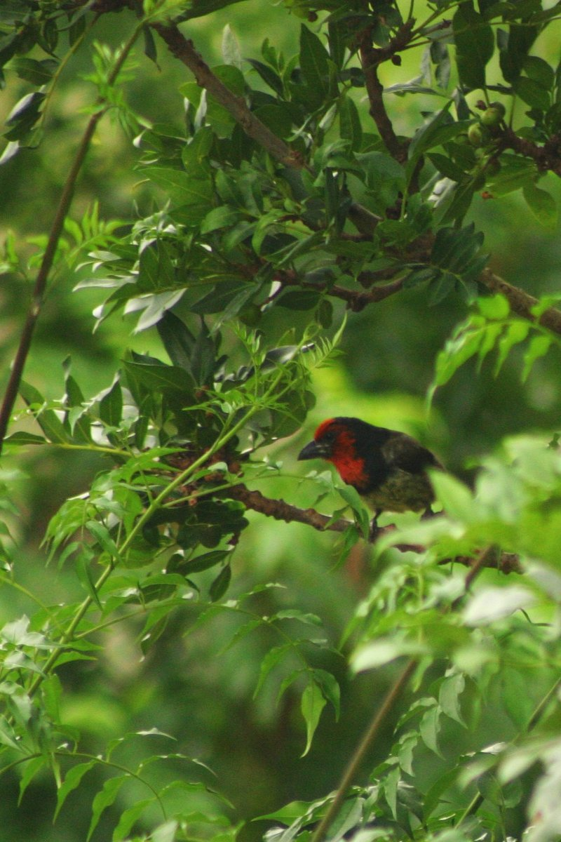 Black-collared Barbet (Lybius torquatus), Port Elizabeth, Eastern Cape, South Africa